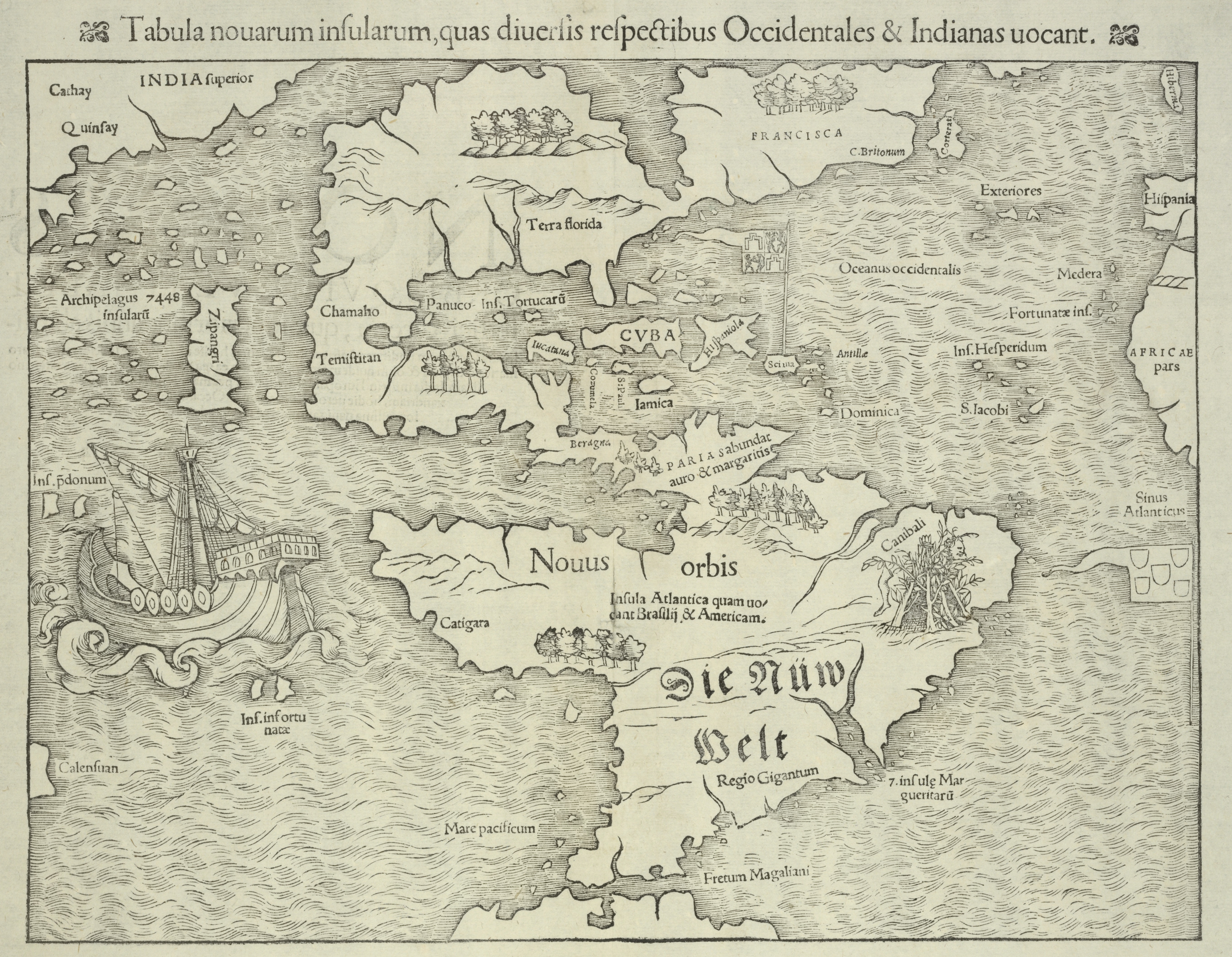 Citation/Reference: Burden, P.D. Mapping of North America, 12 Appears in Sebastian Münster's Cosmographia Universalis. Includes ill. National Endowment for the Humanities Grant for Access to Early Maps of the Middle Atlantic Seaboard. On verso: Novvs orbis, qvi insvlas habet ... 14. Relief shown pictorially. State 5 according to Burden. Citation/Reference: Goss, J. Mapping of North America, map 6, p. 24 Citation/Reference: Manasek, J. Collecting Old Maps, no. 25, p. 144